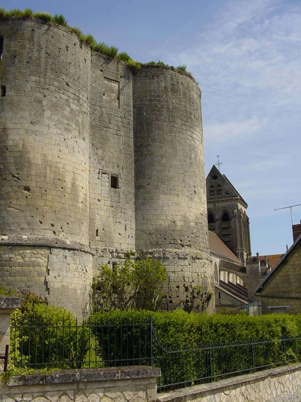 Medieval tower in Ambleny, Aisne, France - 2004